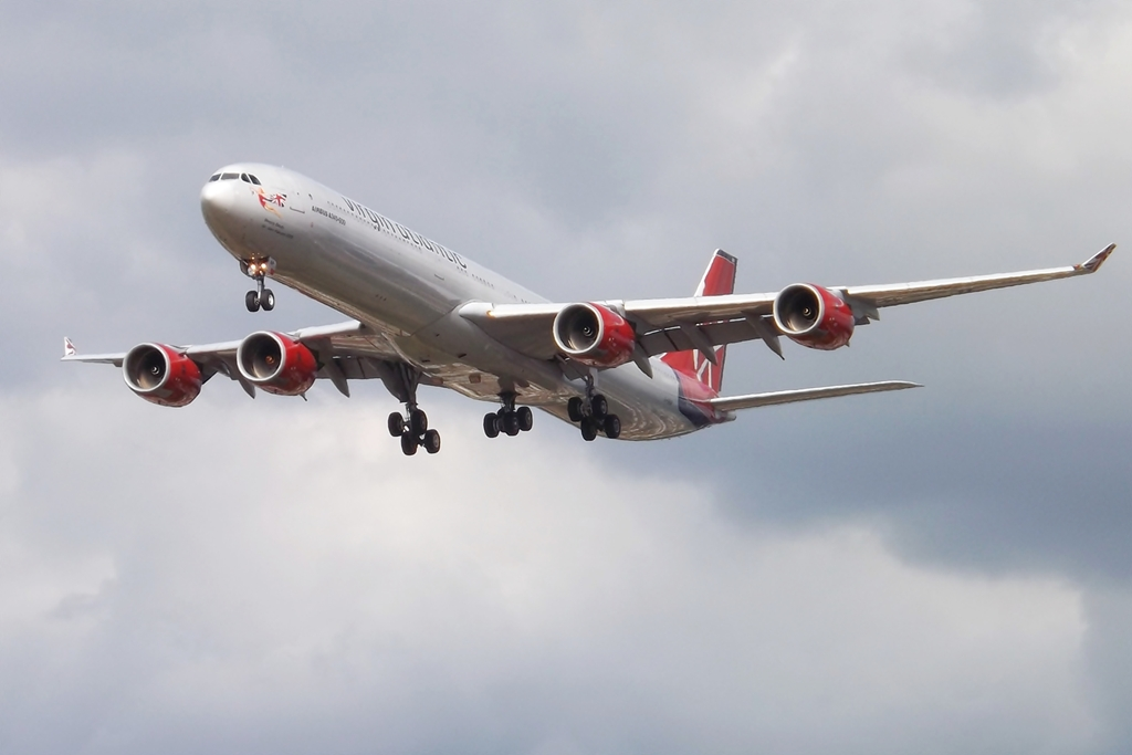 G-VFIZ A340-600 Virgin Atlantic